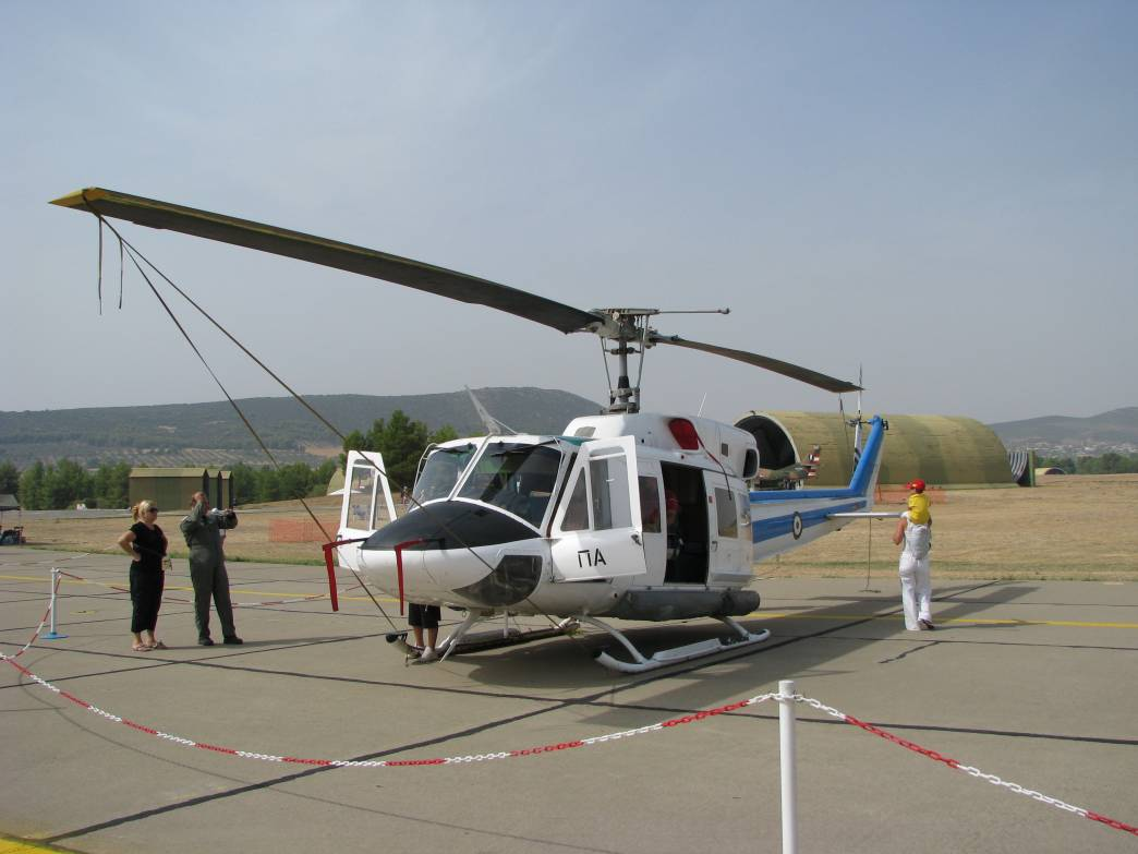 A Hellenic Air Force AB-212 VIP helicopter displayed at the 2008 HAF air show, in Tanagra airbase, Greece